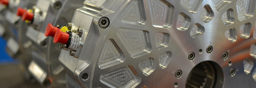 YASA 750 e-motor. Through-shaft axial-flux motor providing 790Nm peak torque from a mass of 37kg